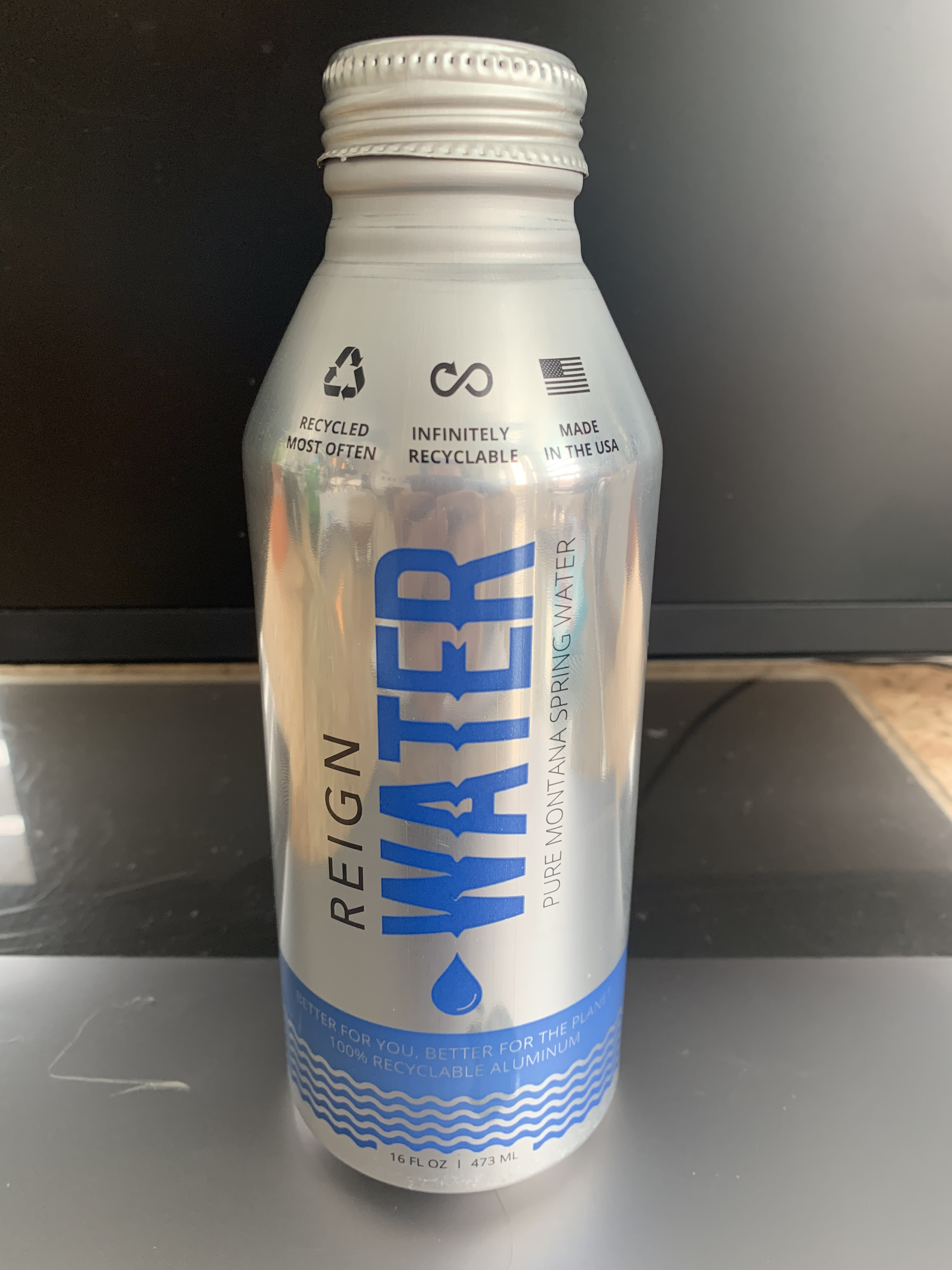 This photo is canned spring water in a resealable 16oz aluminum can. Reign Water Company canned spring water. The can is alumuinum with blue and black ink.